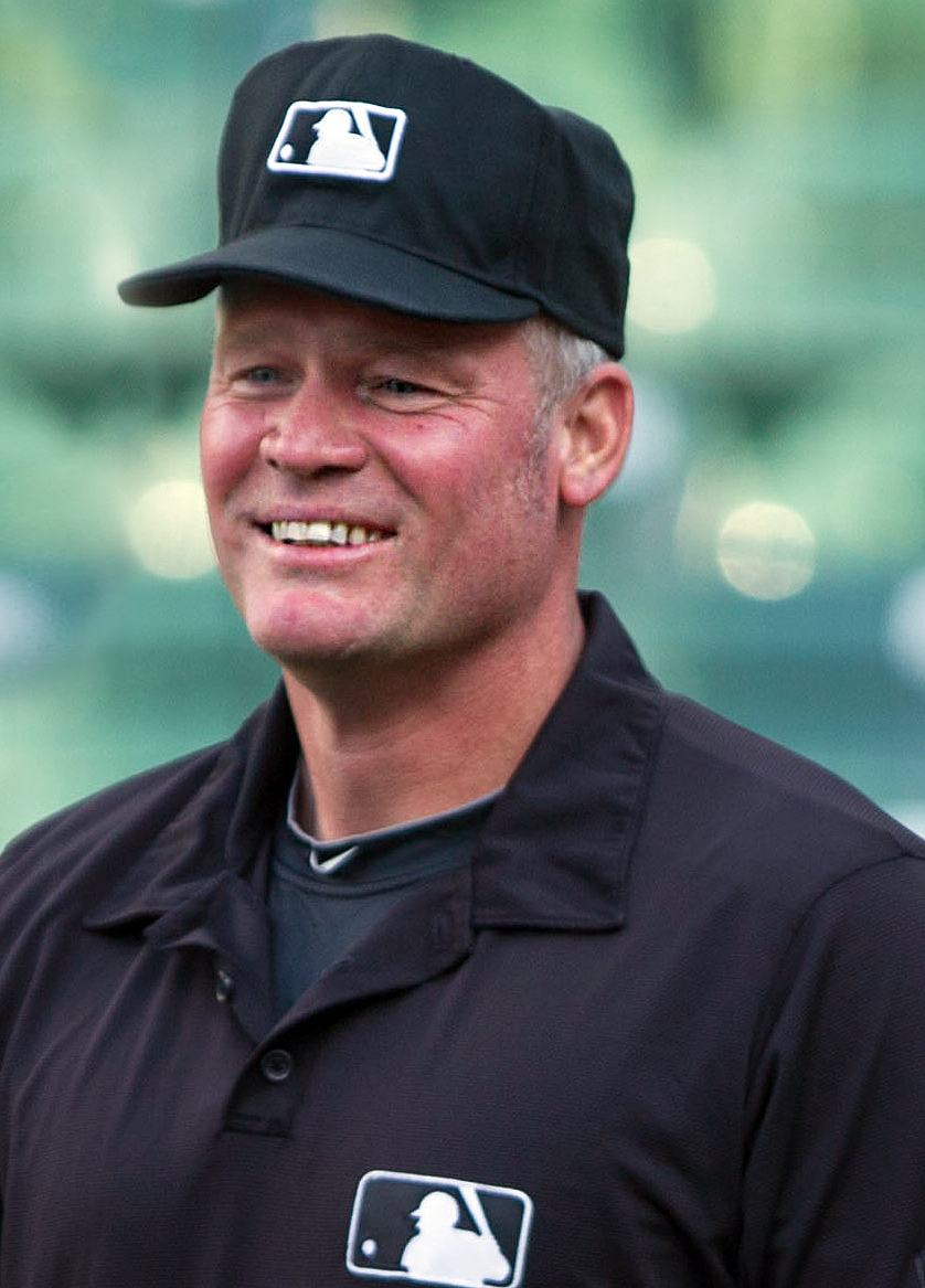 MLB umpire Ted Barrett - Athletics at Orioles July 28, 2012